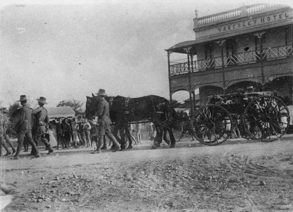 Funeral cortege passing the Waverley Hotel, Charters Towers, Queensland, ca. 1906.